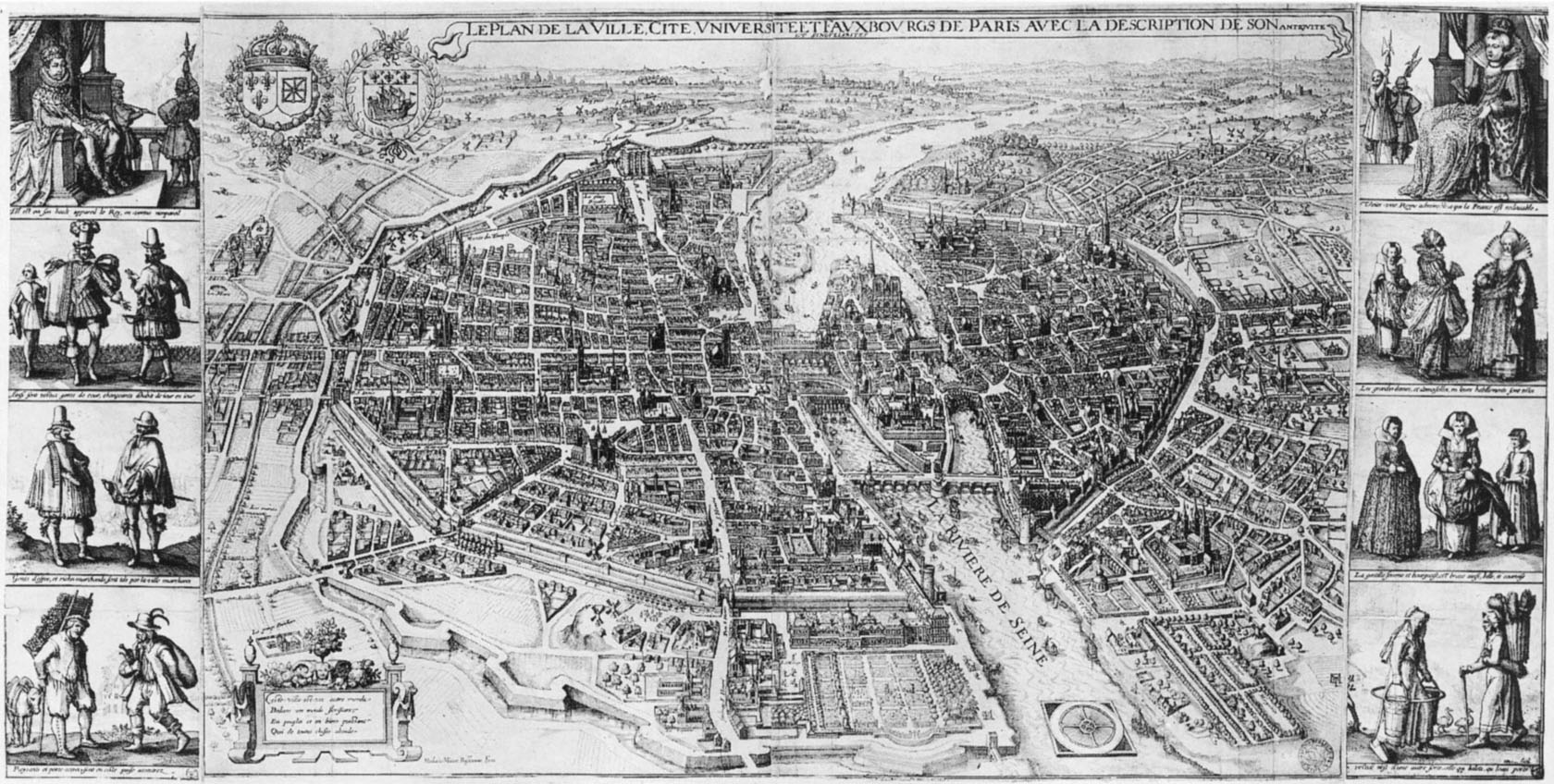 Thumbnail of the Merian map of Paris showing the layout of the assembled map.